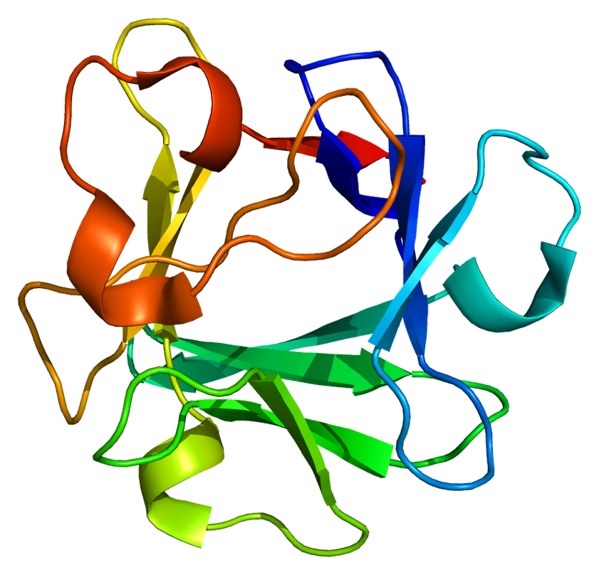 Structure of the FGF2 protein. Based on PyMOL rendering of PDB 1bas.